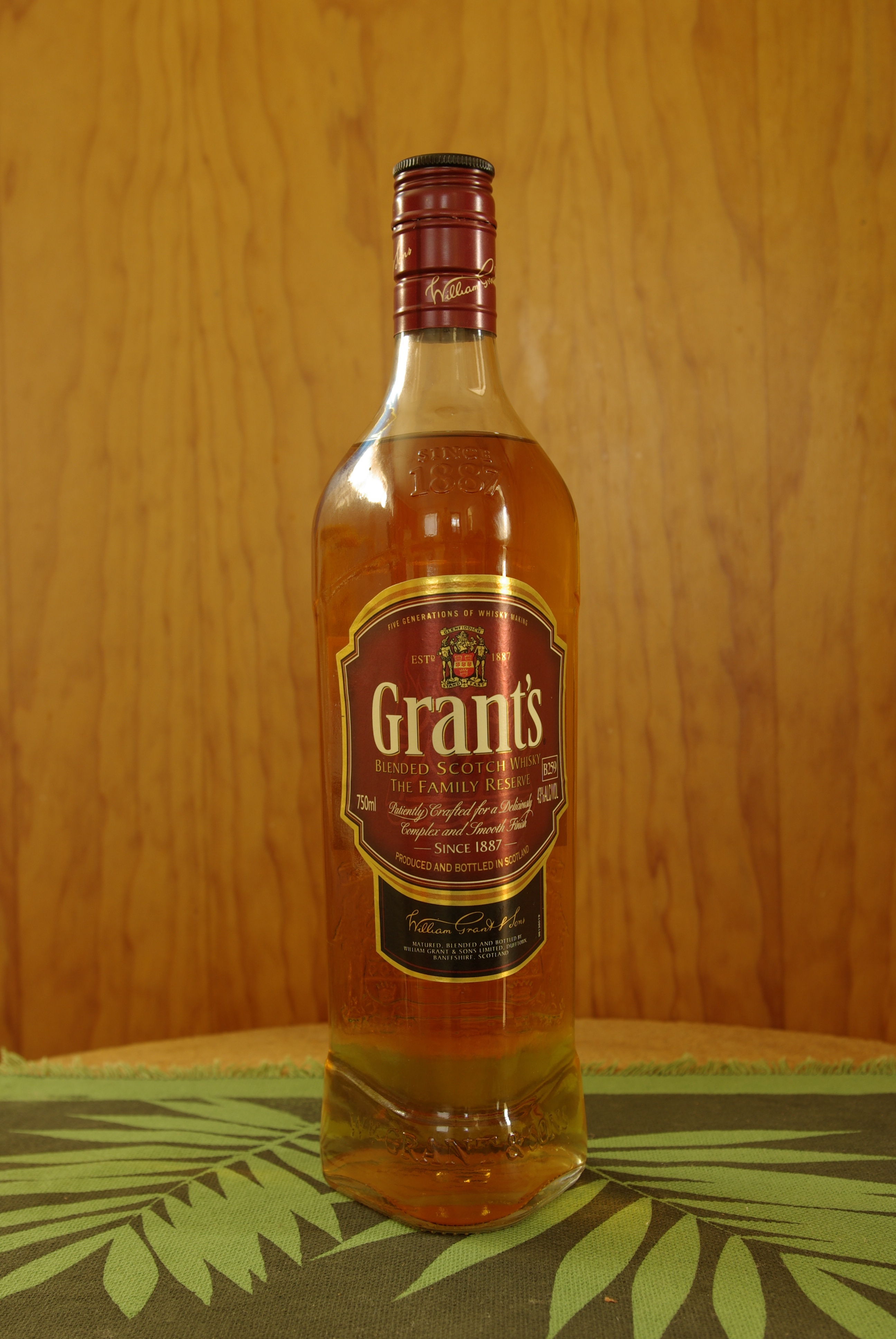 Grant's Whisky triangle bottle